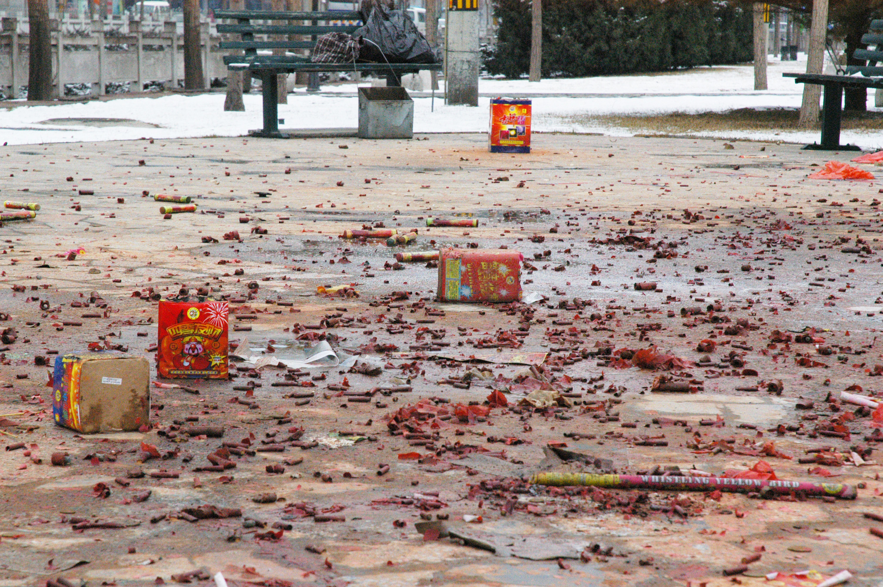 Morning after Chinese New Year (Spring Festival) 2010 in Beijing.